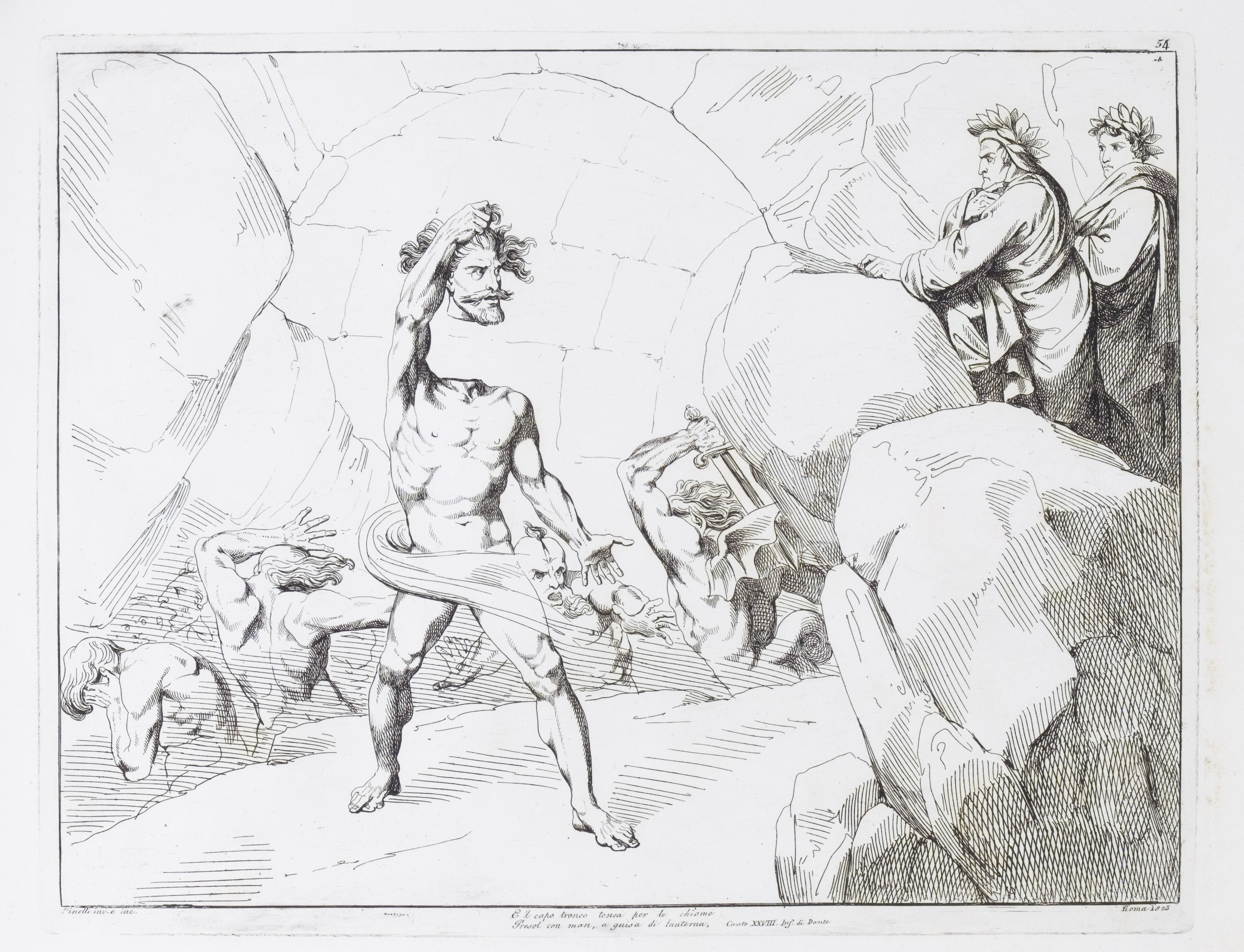 Dante and Virgil watching Bertrand de Born hold his head away from his body to illustrate the spreading of disunity. Iconographic Collections Keywords: Hell; Dante Alighieri,; name; Bartolomeo Pinelli